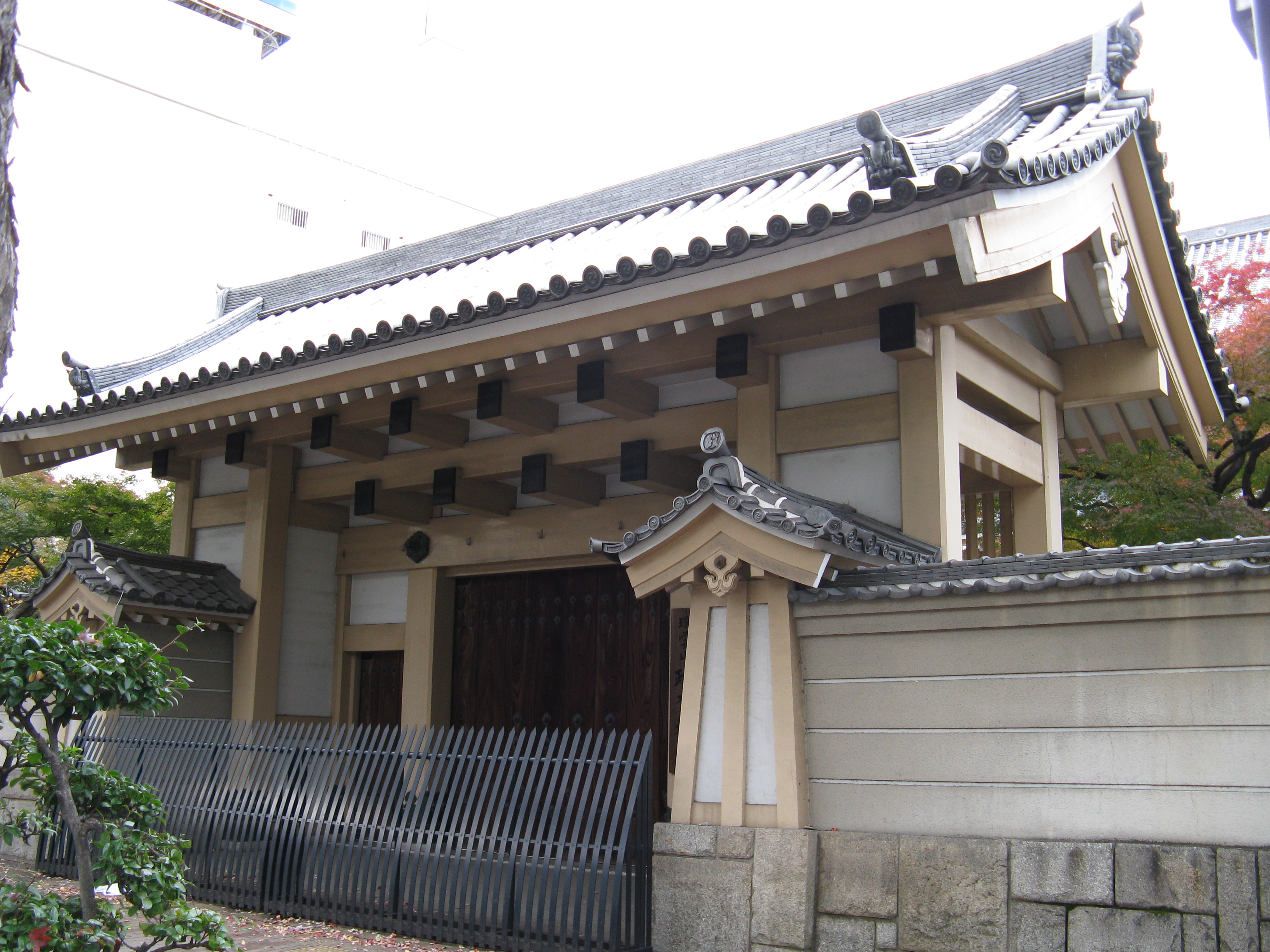 Seishū-ji in Nagoya, central Japan.